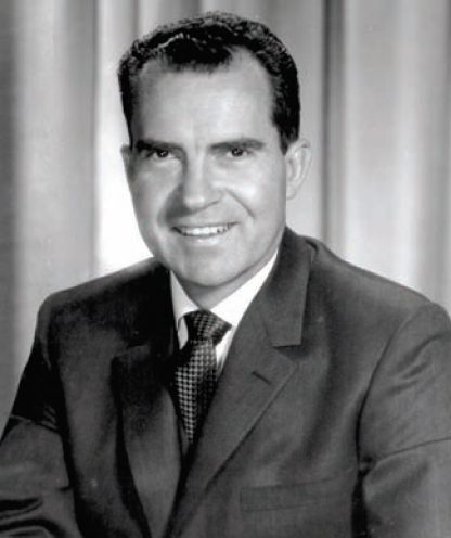 Vice President Nixon's portrait.